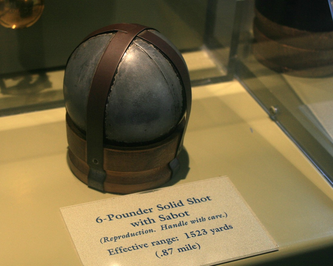 6-pounder solid shot (Manassas battlefield visitor's center)